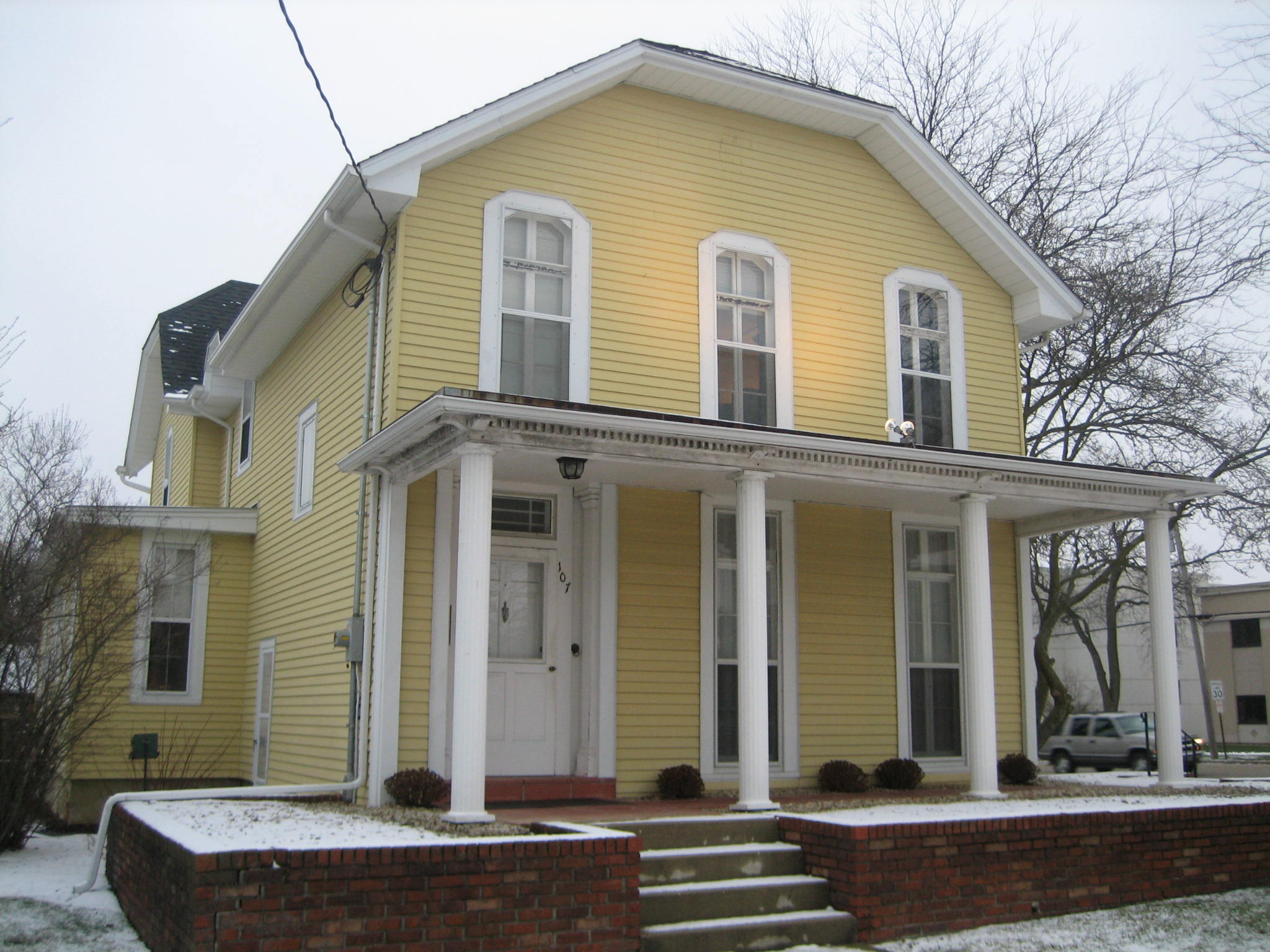 D.B. James Residence, Sycamore, Illinois. 107 W. Exchange St. National Register of Historic Places as part of the Sycamore Historic District.